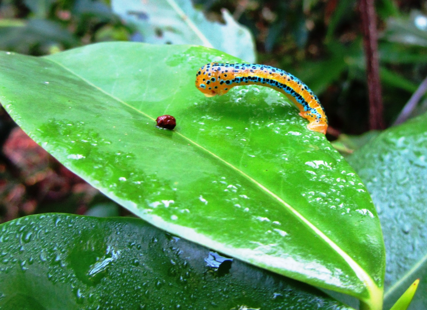 Caterpillar of Dysphania percota, moth of family Geometridae. Photographed at the Butterfly Conservatory of Goa, Ponda, Goa, India.